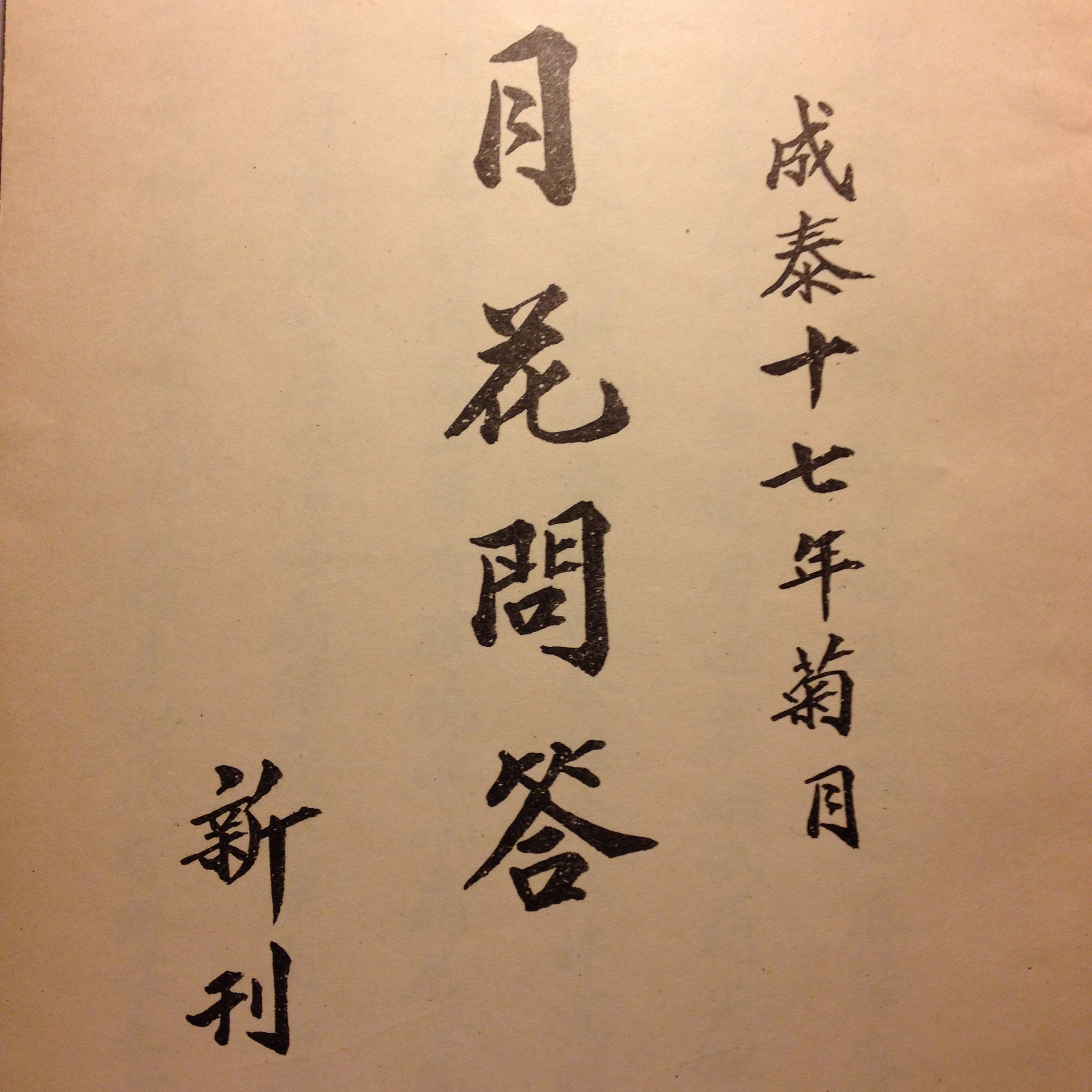 Vietnamese text in Nôm, printed in 1905, 17th year of Thành-thái